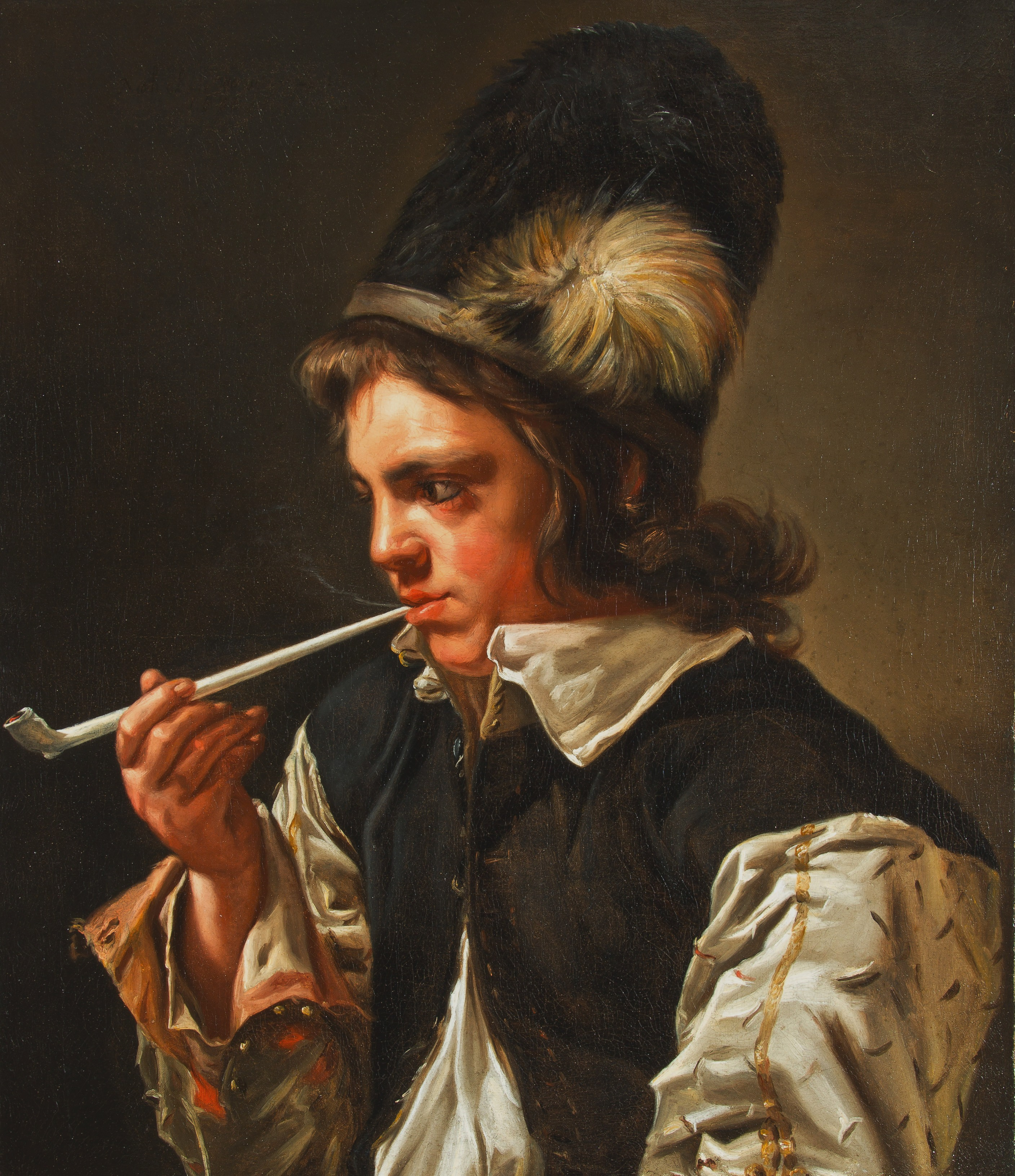 Young Man smoking a Pipe